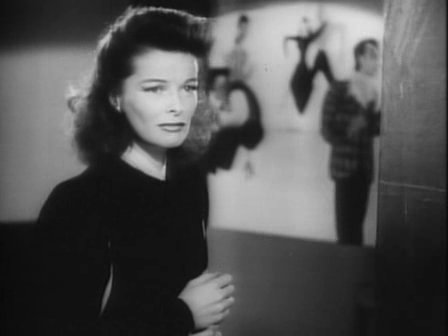 Cropped screenshot of Katharine Hepburn from the film Stage Door Canteen.